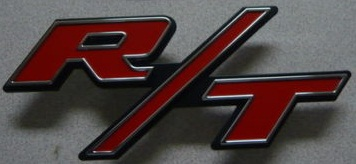 Dodge R/T Badge